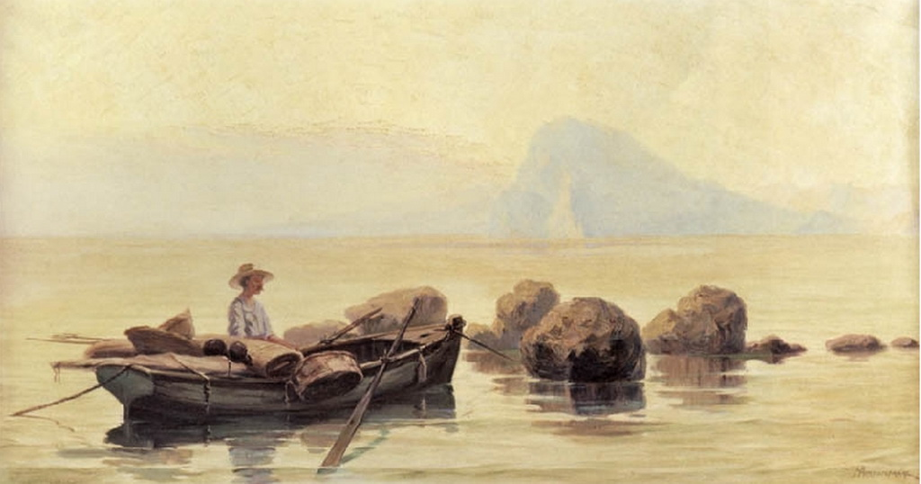 Fishing boat, circa 1912 - 1920